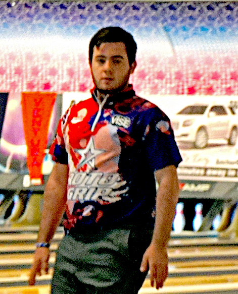 Ten-pin bowler Anthony Simonsen during tournament in Middletown, Delaware, U.S..